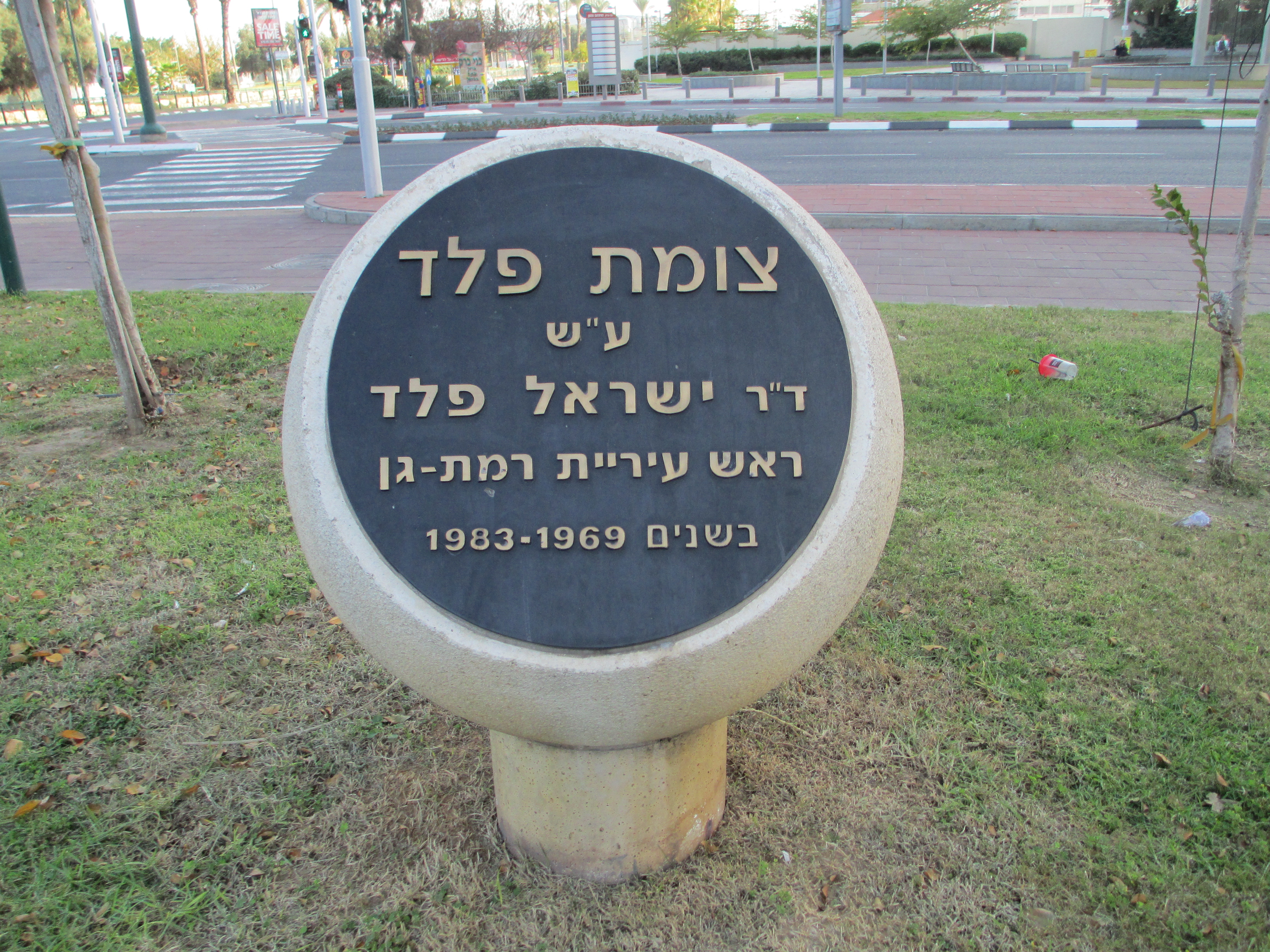 Peled junction in Ramat Gan